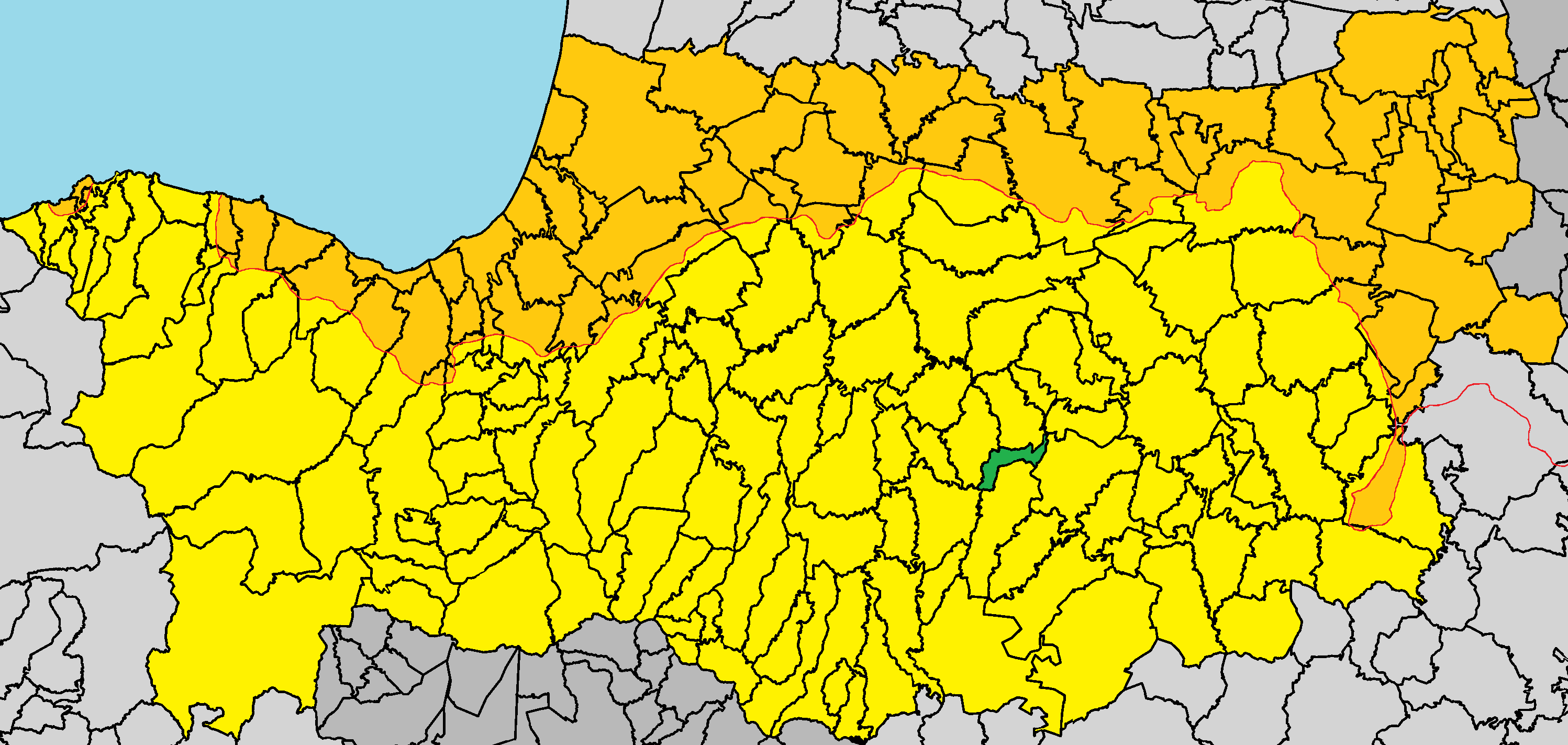 Episkopeio in Nicosia District.